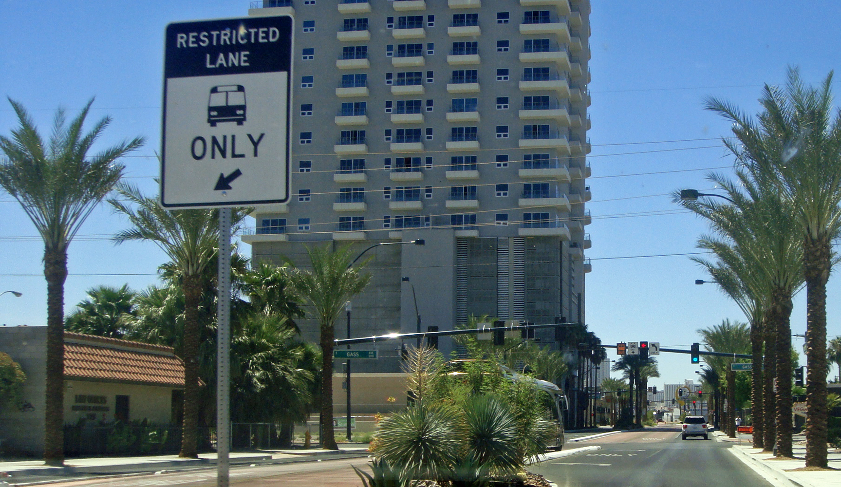 BRT line operated by the Regional Transportation Commission of Southern Nevada (RTC), Las Vegas, USA